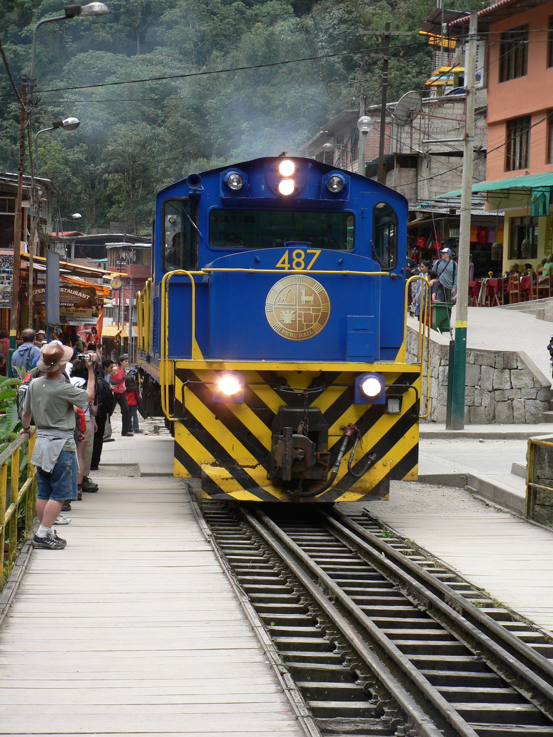 Train home from Machu Picchu town